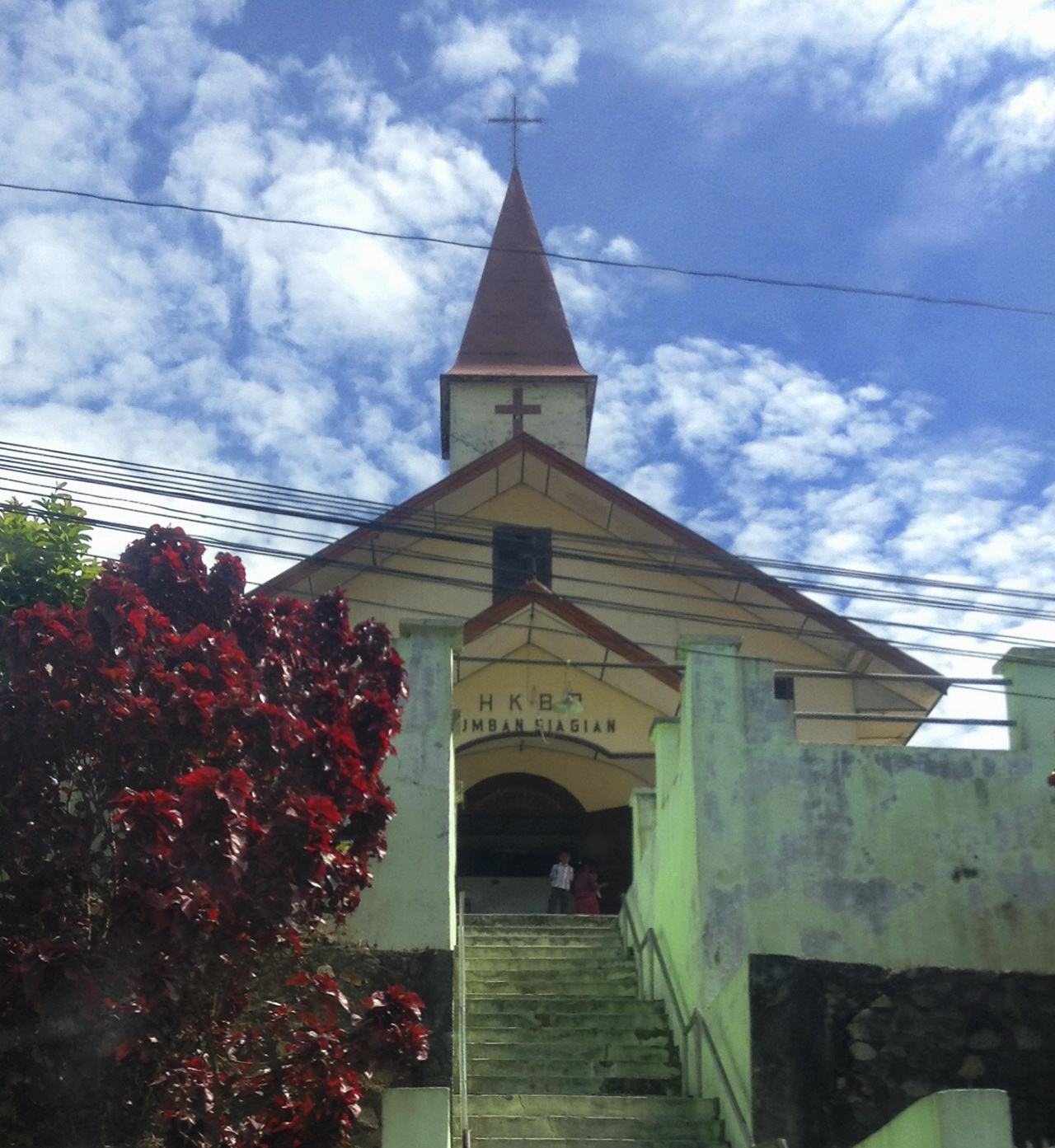 HKBP Lumban Siagian, Church in Lumban Siagian, Siatas Barita, North Tapanuli